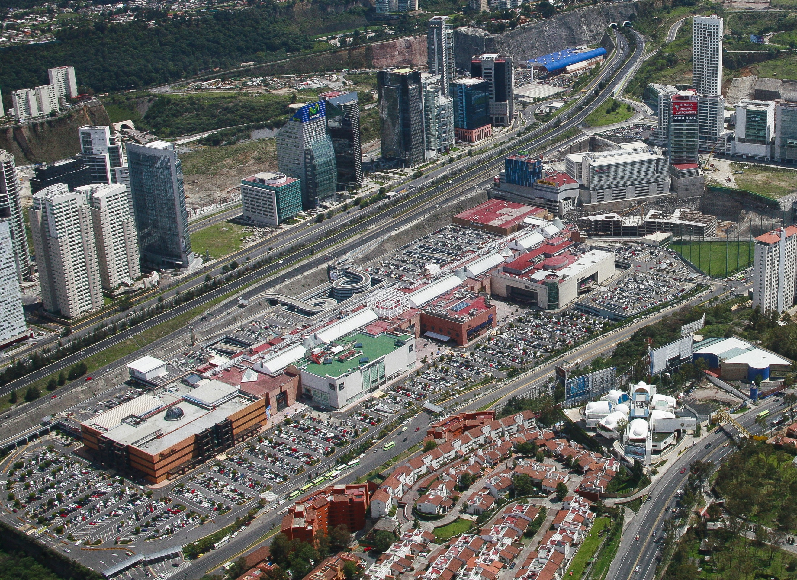 Centro Santa Fe, Santa Fe, Mexico City